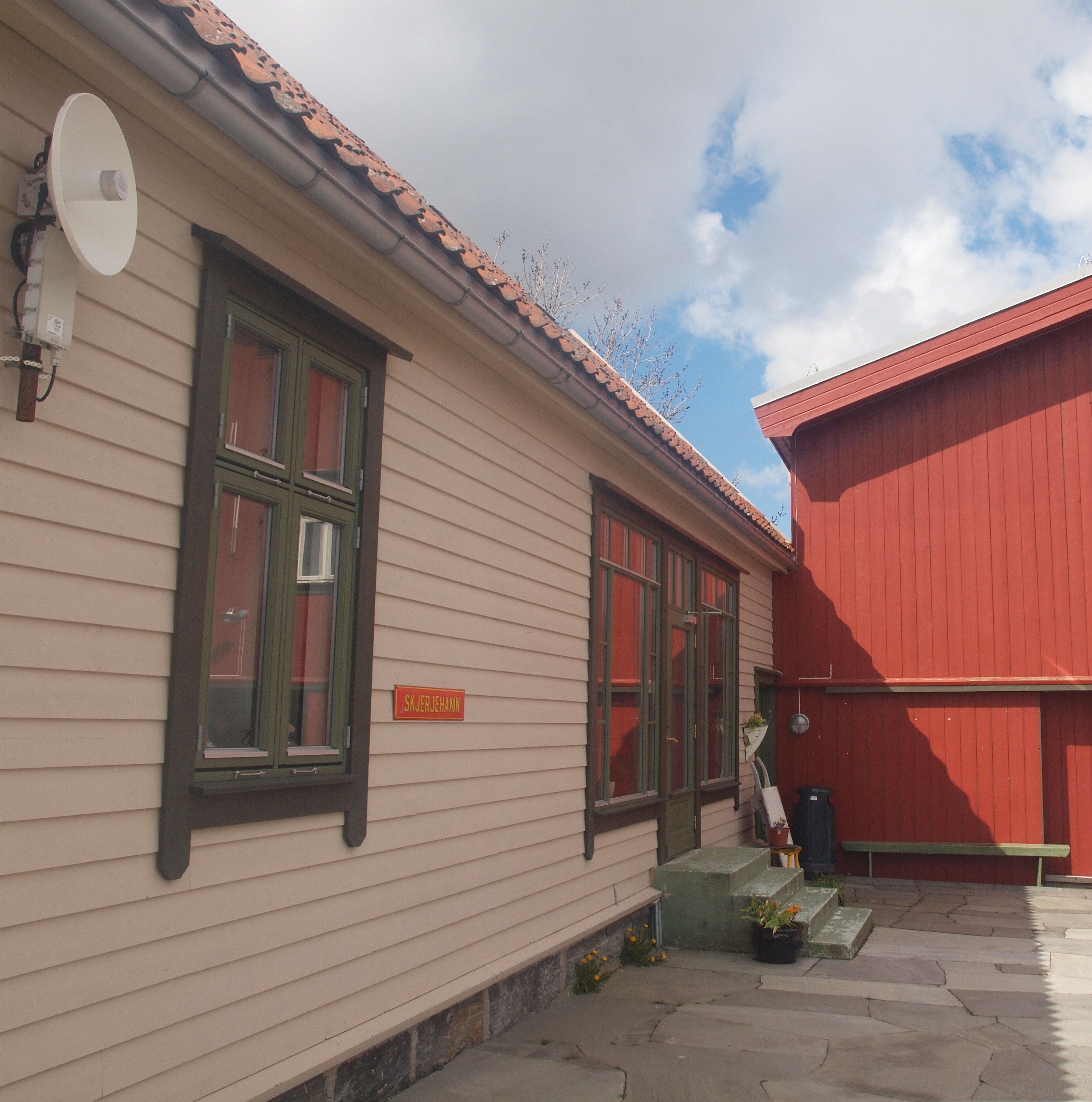 The local supermarket in Skjerjehamn